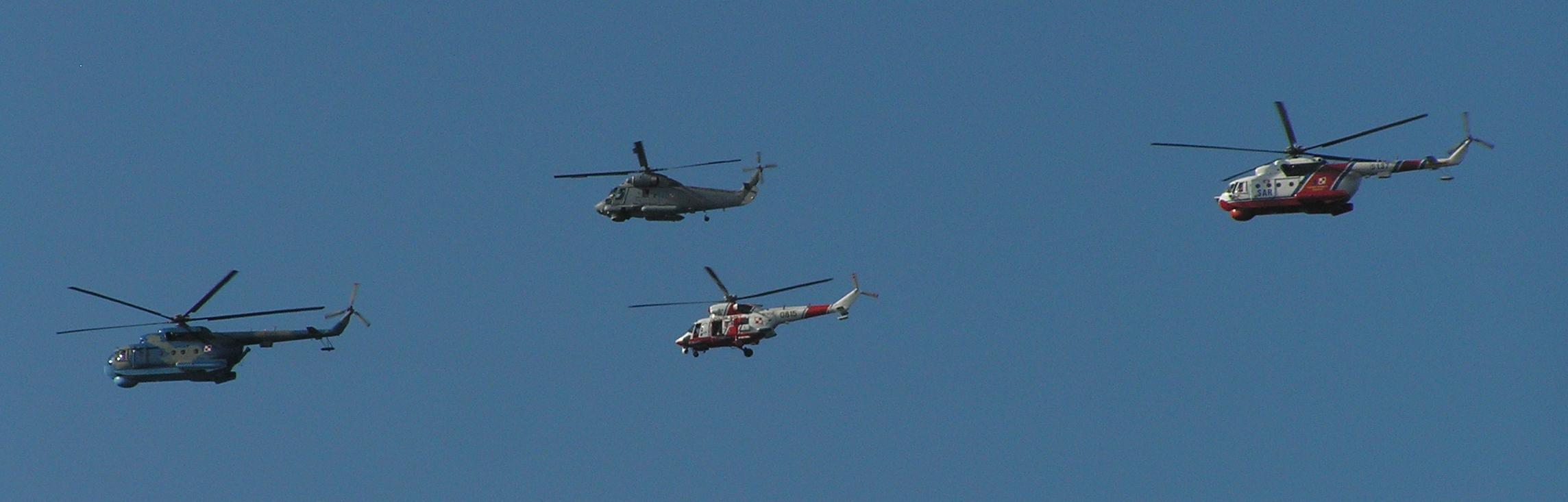 Helicopters of the Polish Navy. From the left: Mi-14PL, Kaman SH-2G Super Seasprite, PZL W-3RM Anakonda, Mi-14PS